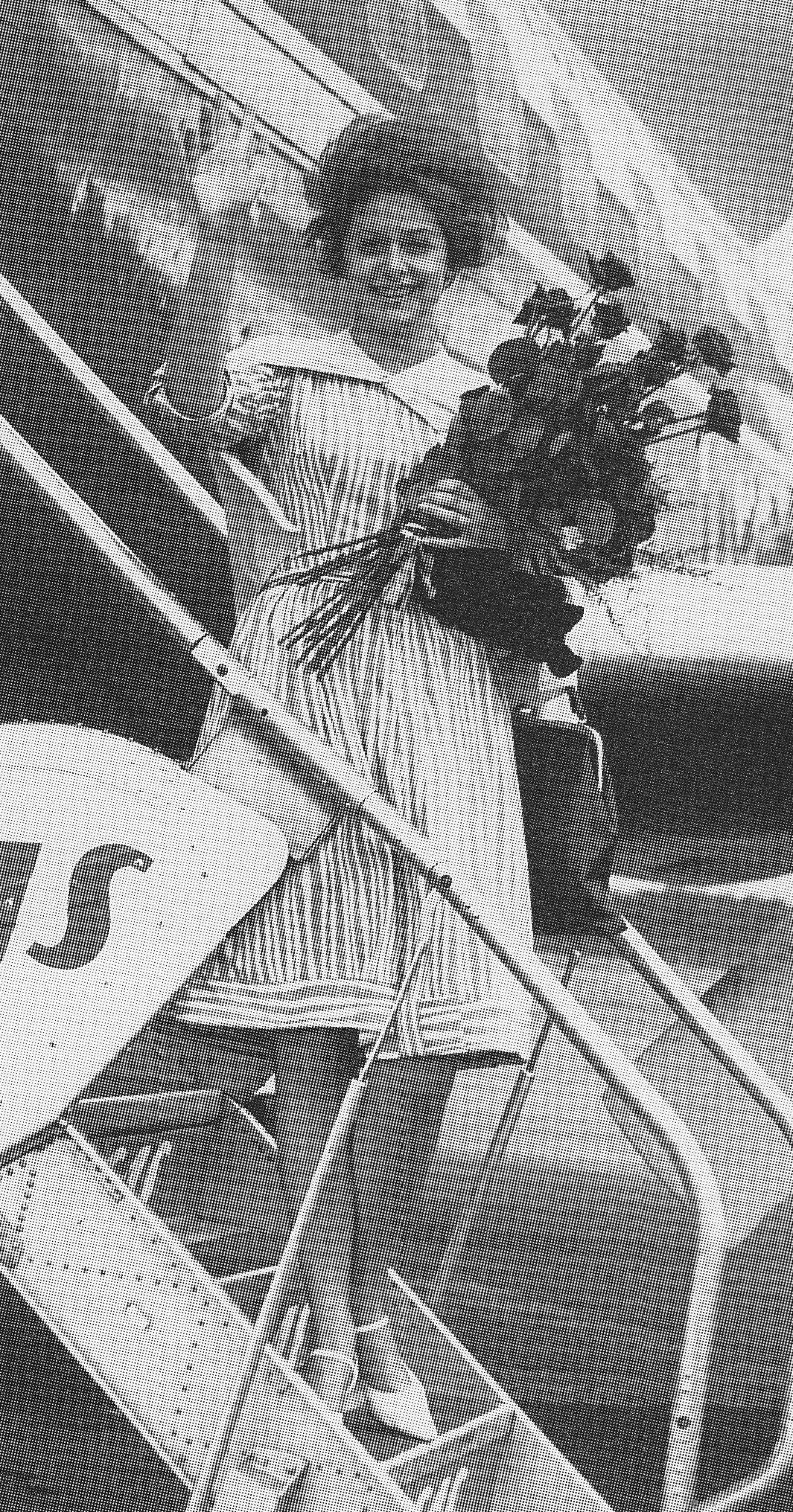 Marion Rung going to Sopot 1962